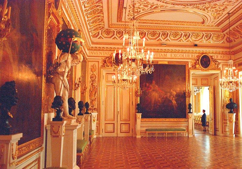 Royal Castle in Warsaw